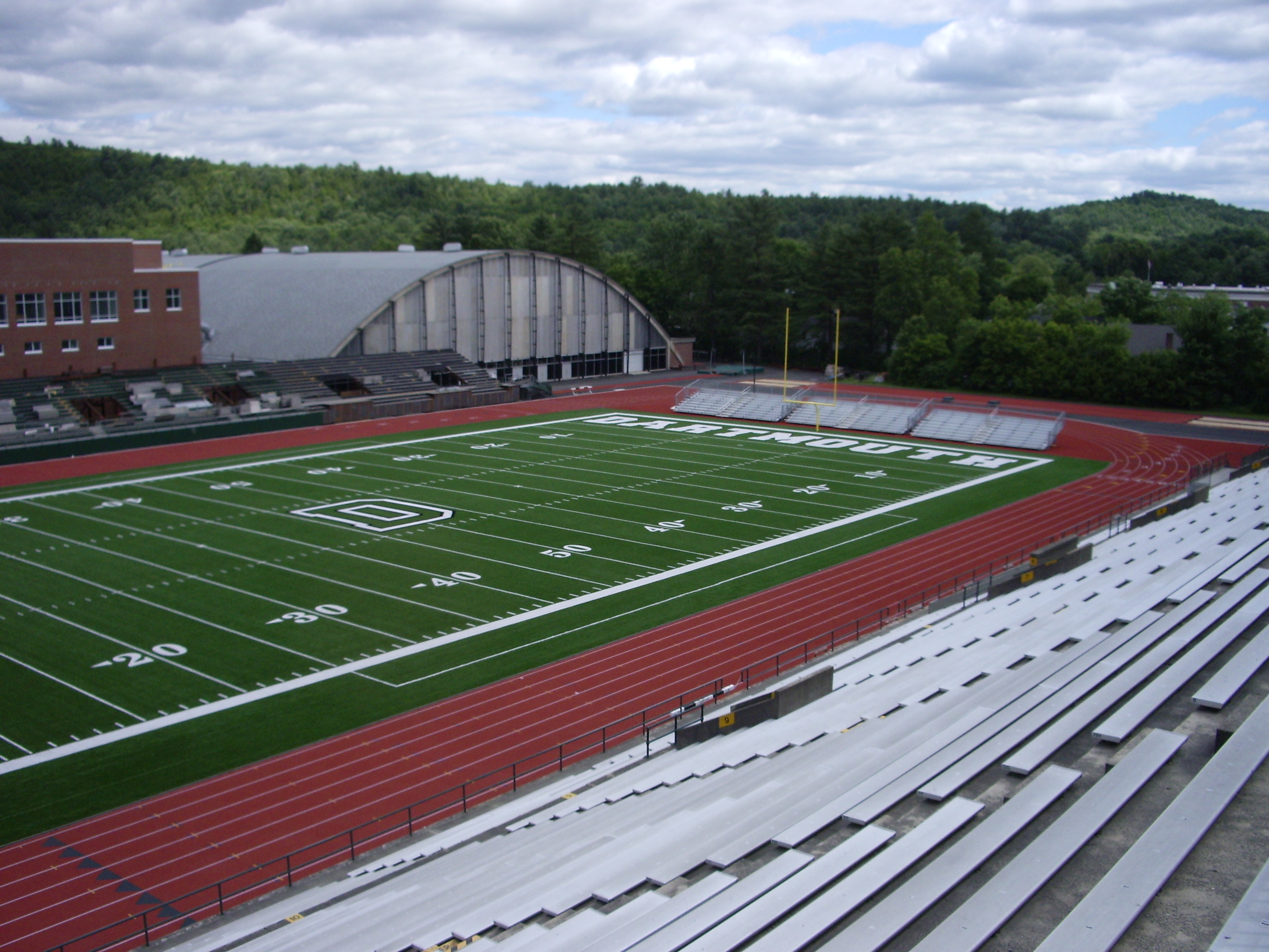 Photograph of Memorial Field at the campus of Dartmouth College in Hanover, New Hampshire, with the Nathaniel Leverone Fieldhouse visible in the background.